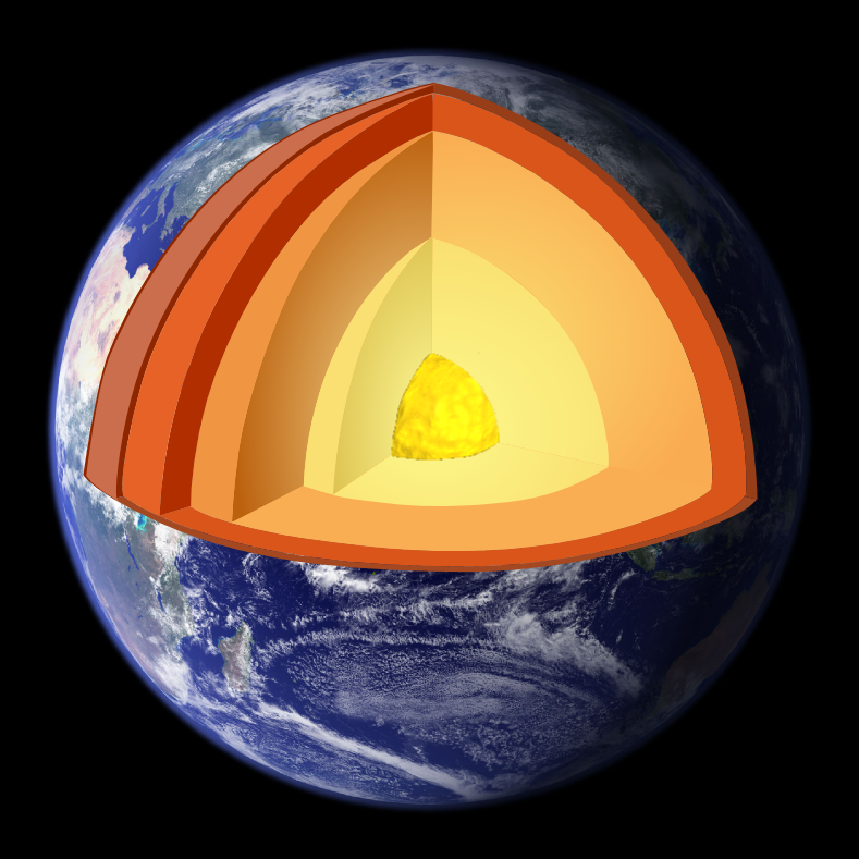 Self-made composition of [1], File:Jordens inre-numbers.svg and core from File:PIA00519 Interior of Ganymede.jpg